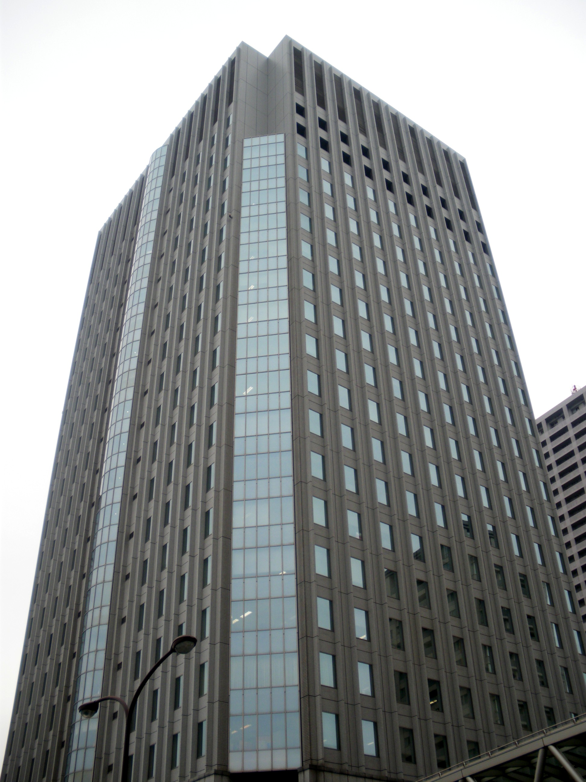 A photo of Tennouzu Parkside Building.Higashishinagawa,Shinagawa-ku,Tokyo,Japan.